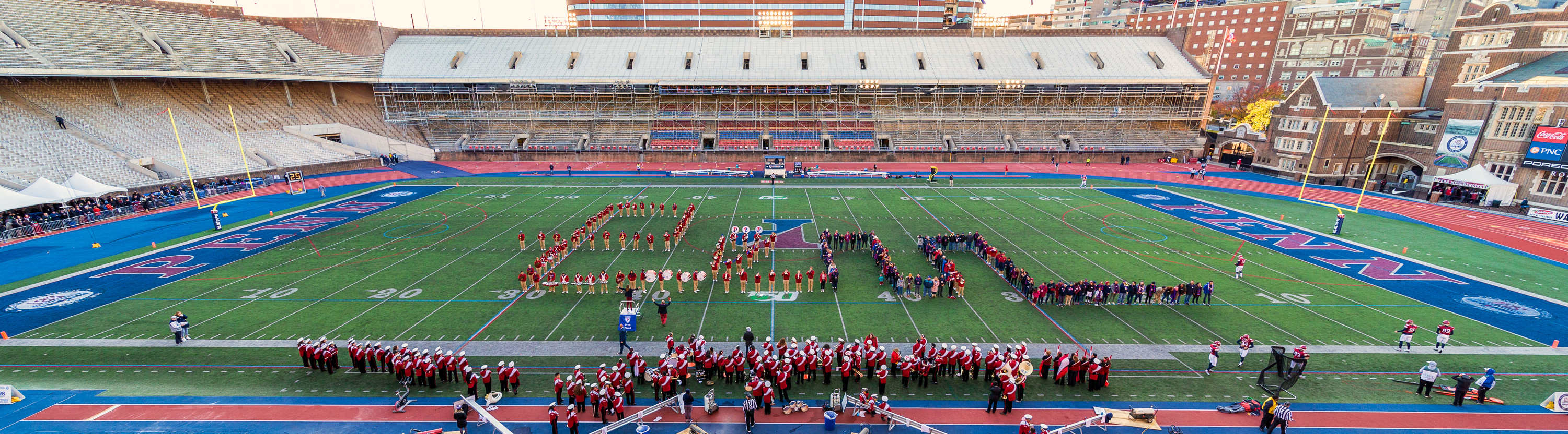 Wide view of Franklin Field. Penn marching band and alumni on the field during homecoming game. Note the south and east stands under renovation. UPenn vs. Cornell football, November 9, 2019. Penn won, 21-20.